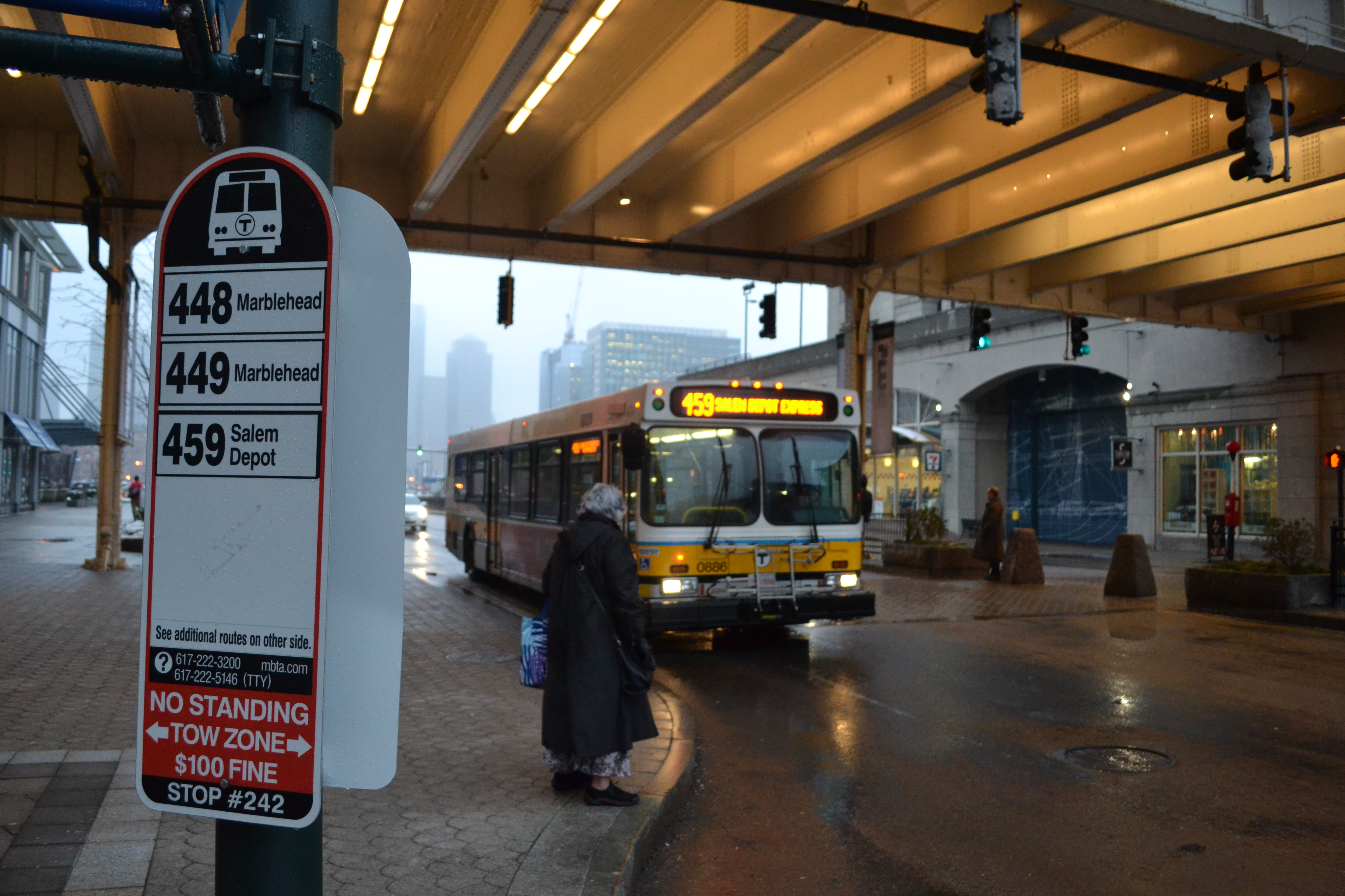 An outbound #459 bus arrives at World Trade Center, bound for Salem